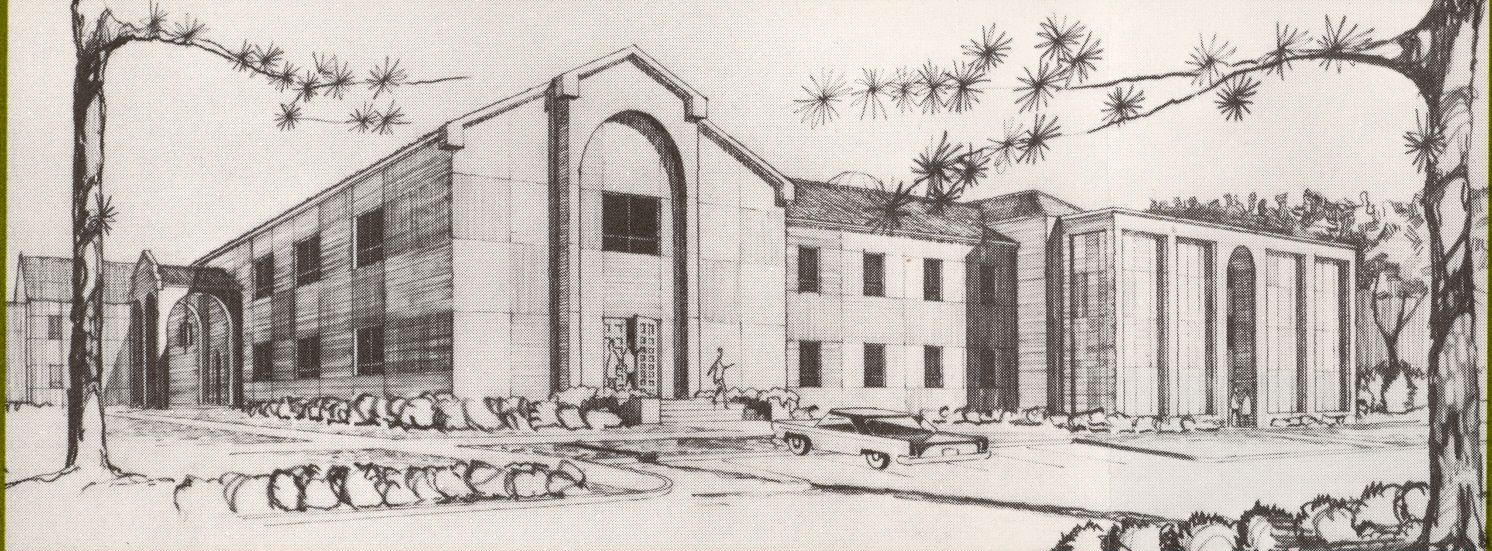 Design of Nevins Hall west expansion, Valdosta State College (now Valdosta State University)